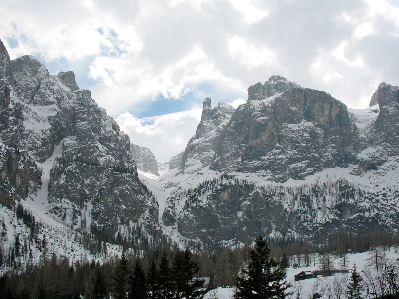 Mittagstal (Ladin: Val de Mesdì) on the Sella in the Dolomites, South Tyrol. View from the bottom